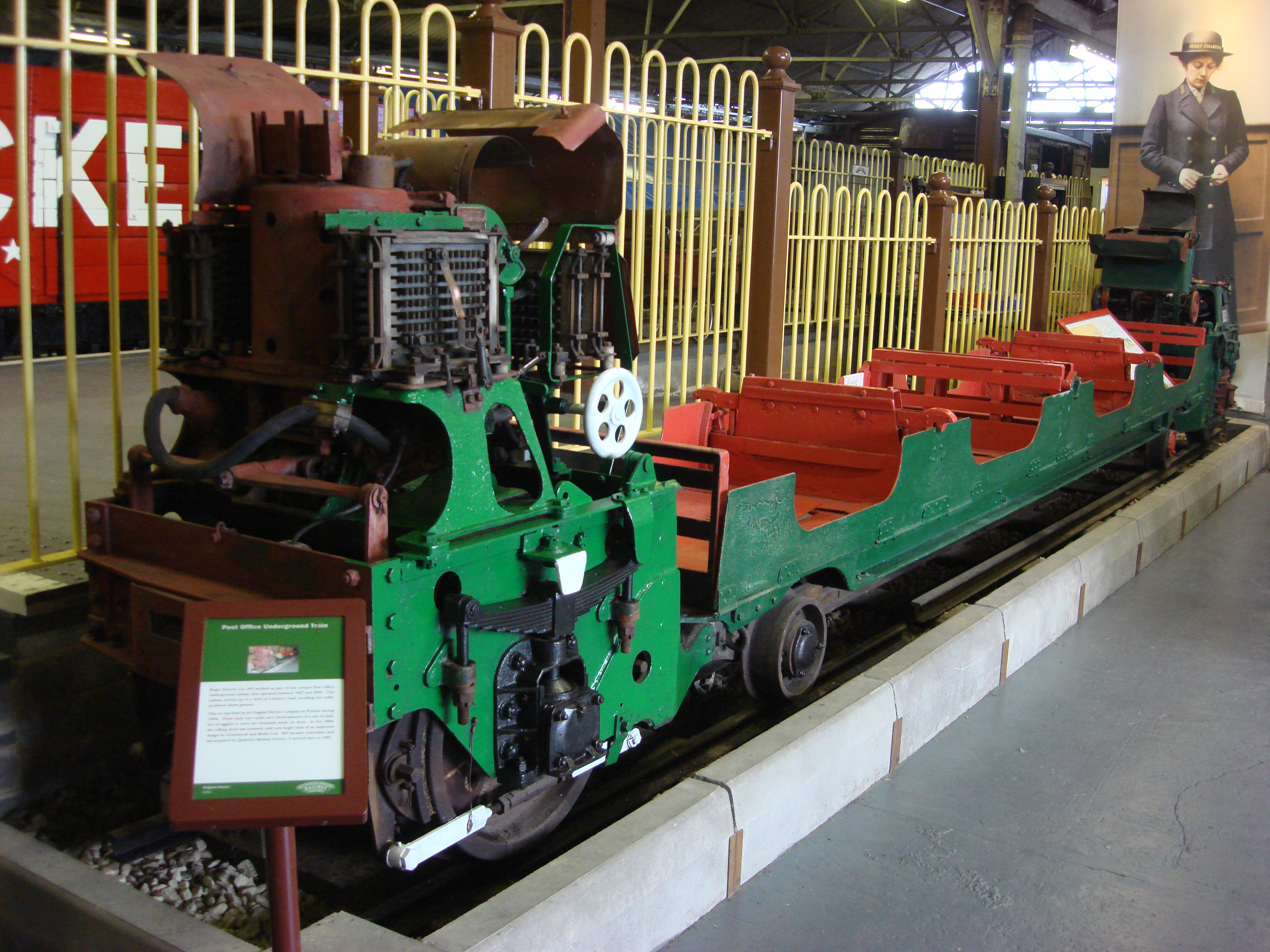 London Post Office Railway 1930 Stock, Mailbag Car No. 803 at the Buckinghamshire Railway Centre